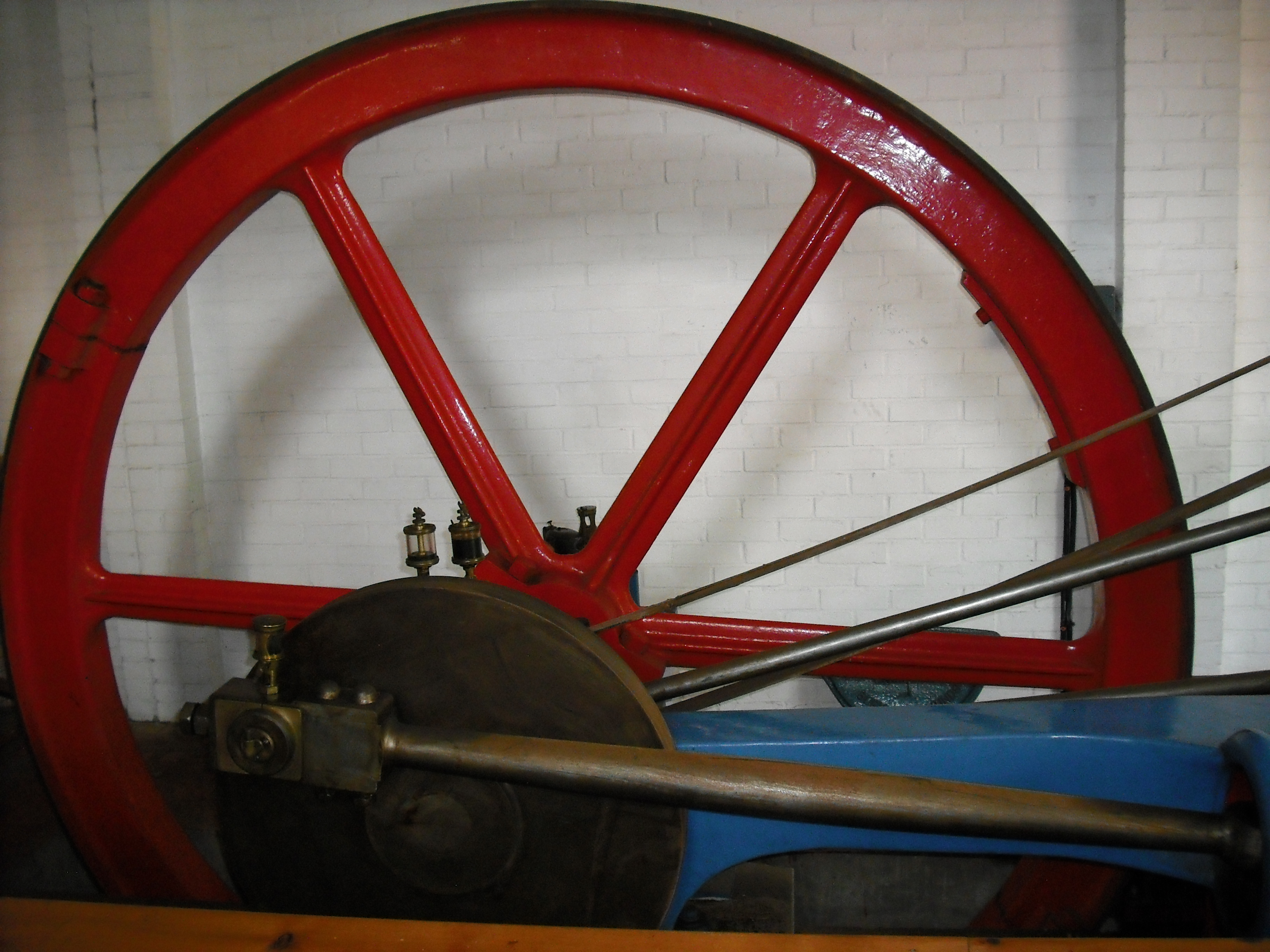 1893 Whitmore and Binyon horizontal condensing steam engine, made for Reuben Rackham and installed at his water-powered flour mill on the River Deben in Wickham Market.